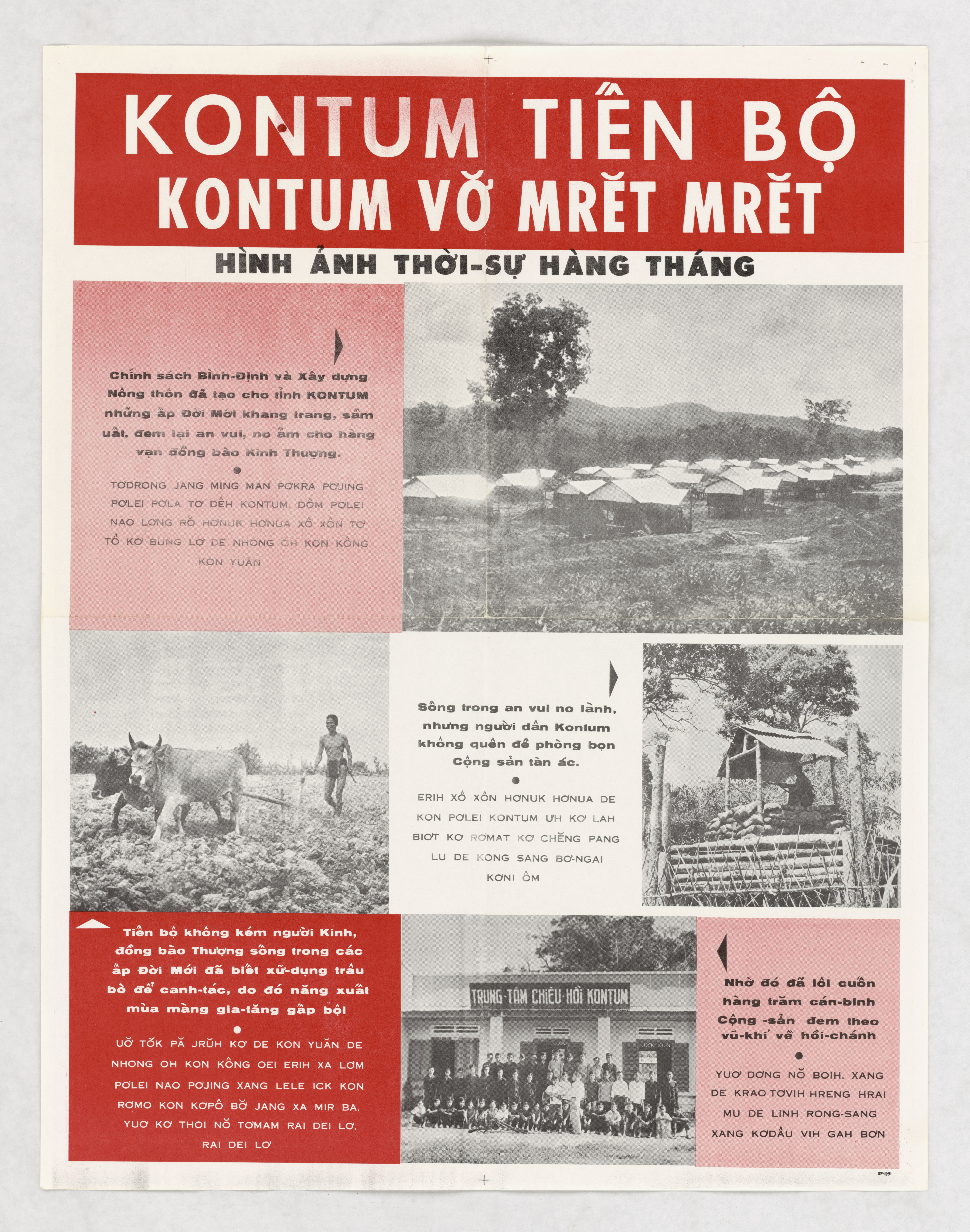 A psychological warfare poster promoting the U.S.-South Vietnamese cause during the Vietnam War